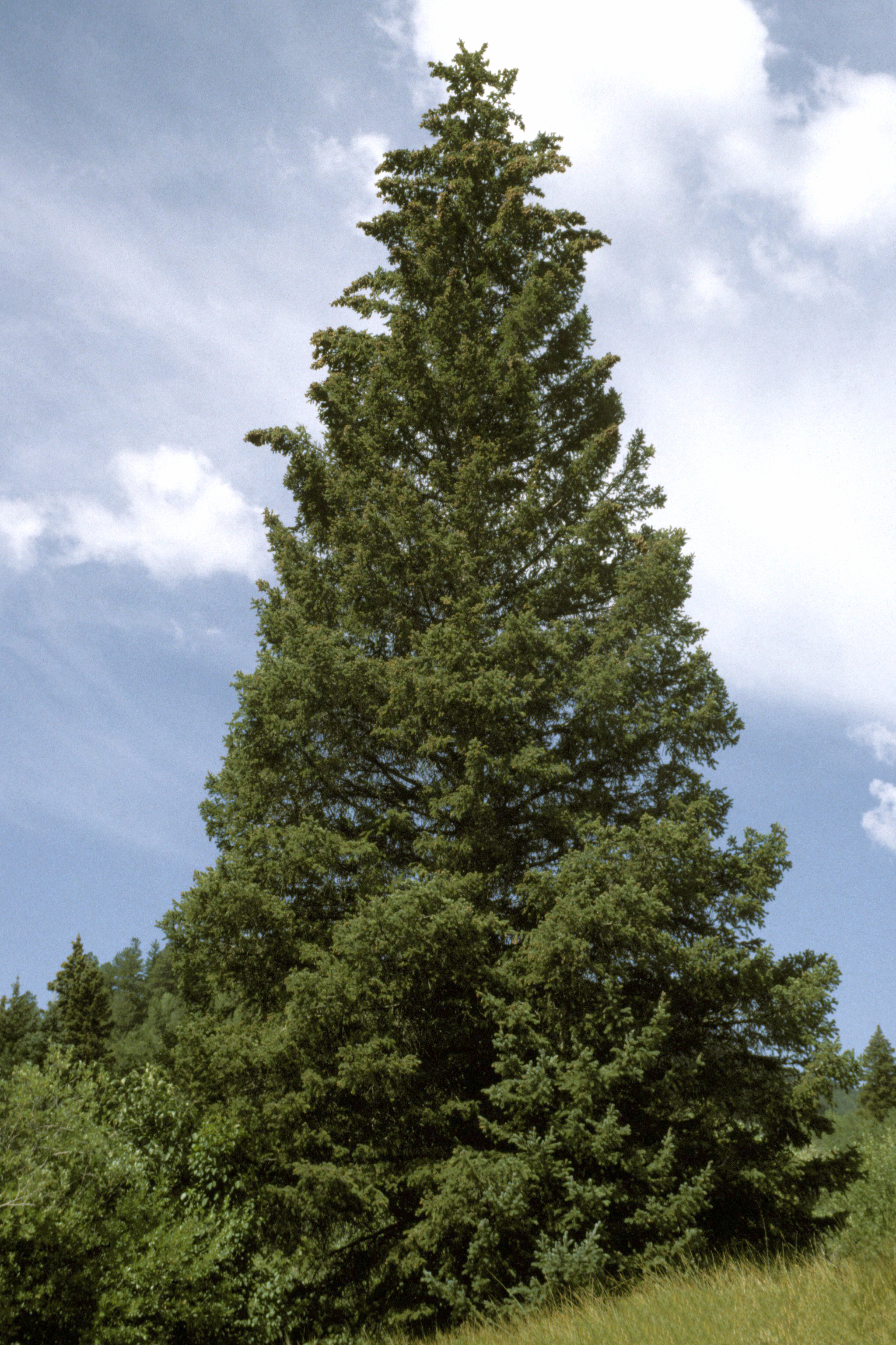 Picea pungens mature tree. Rocky Mountain Region, USA.